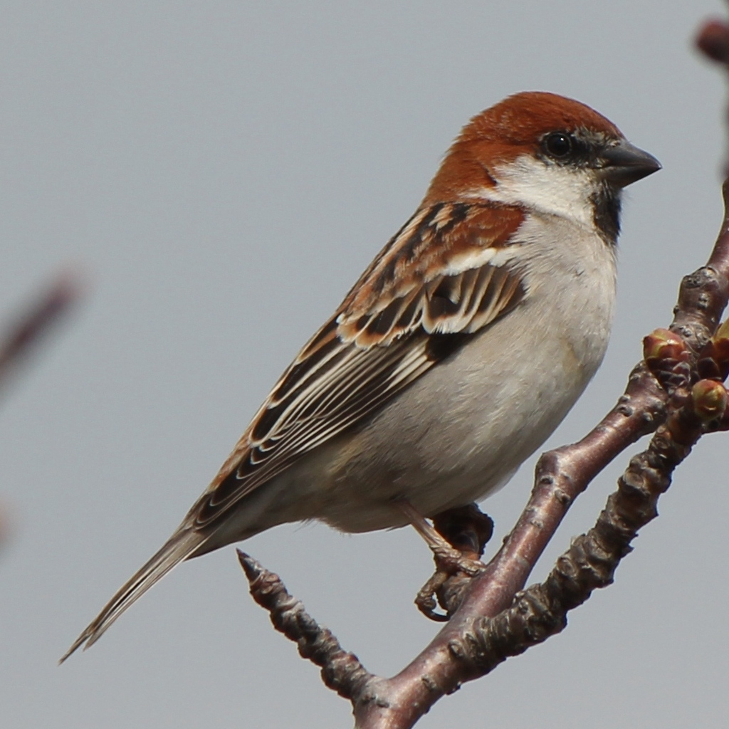 Russet Sparrow(Passer rutilans), male on tree, in Aichi prefecture, Japan.